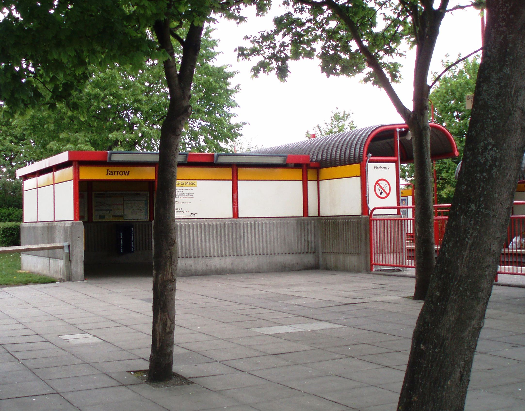 Jarrow station on the Tyne and Wear Metro. The Platform 2 building from the forecourt onto Grant Street.